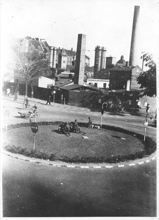 The roundabout at Toftegårds Plads in Valby, Copenhagen, Denmark. Three German soldiers on guard during the General Stirike in 1944. In the background Stelling's Paint Factory and the Carbonic Acid Factory.